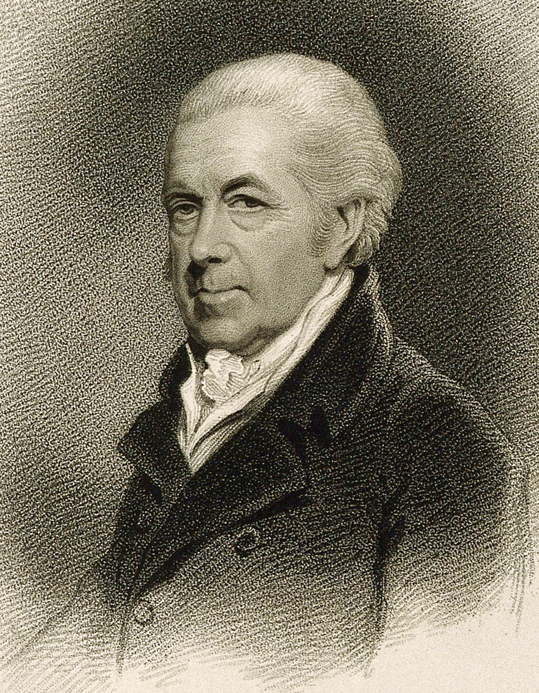 Portrait of Sir Lucas Pepys, 1st Baronet (1742–1830), English physician.